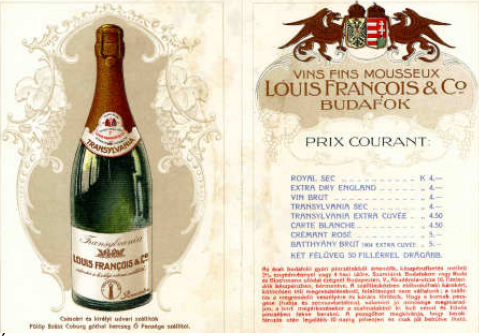 François & Co. Champagne factory in Hungary - price list